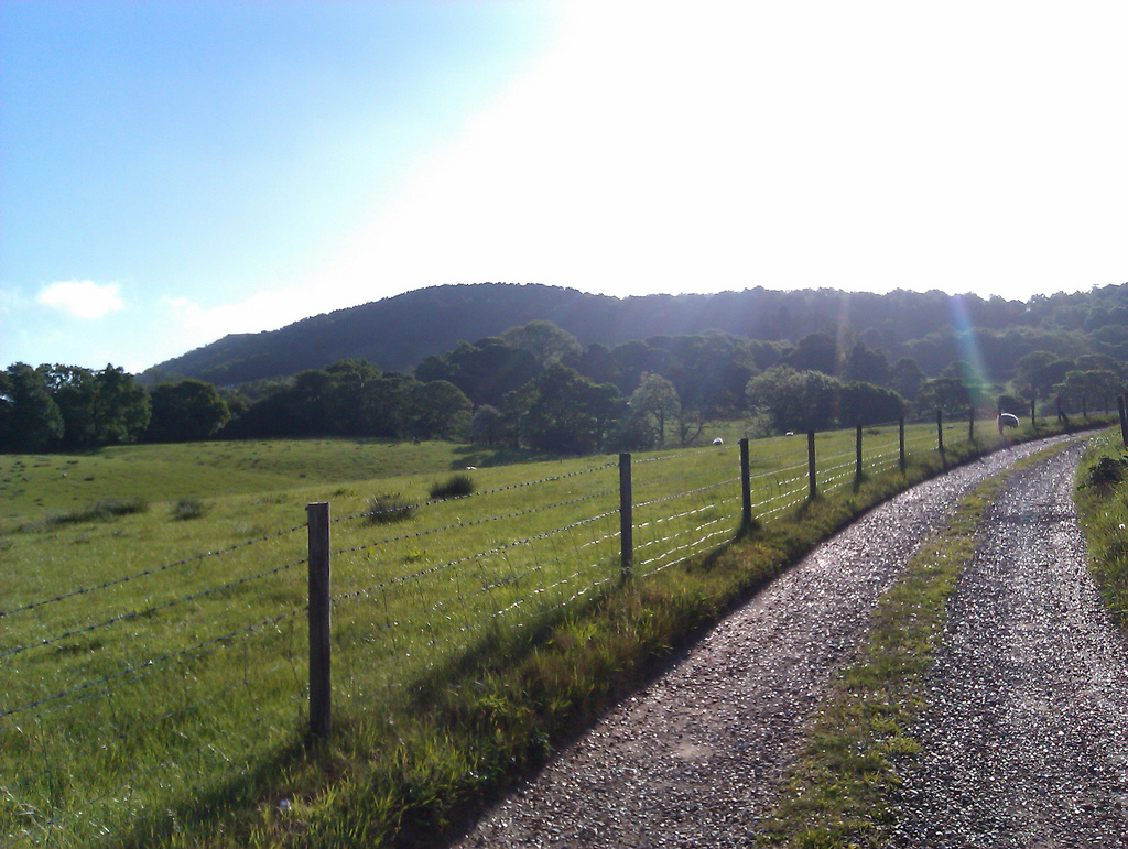 Bosley Cloud as seen from Timbersbrook.